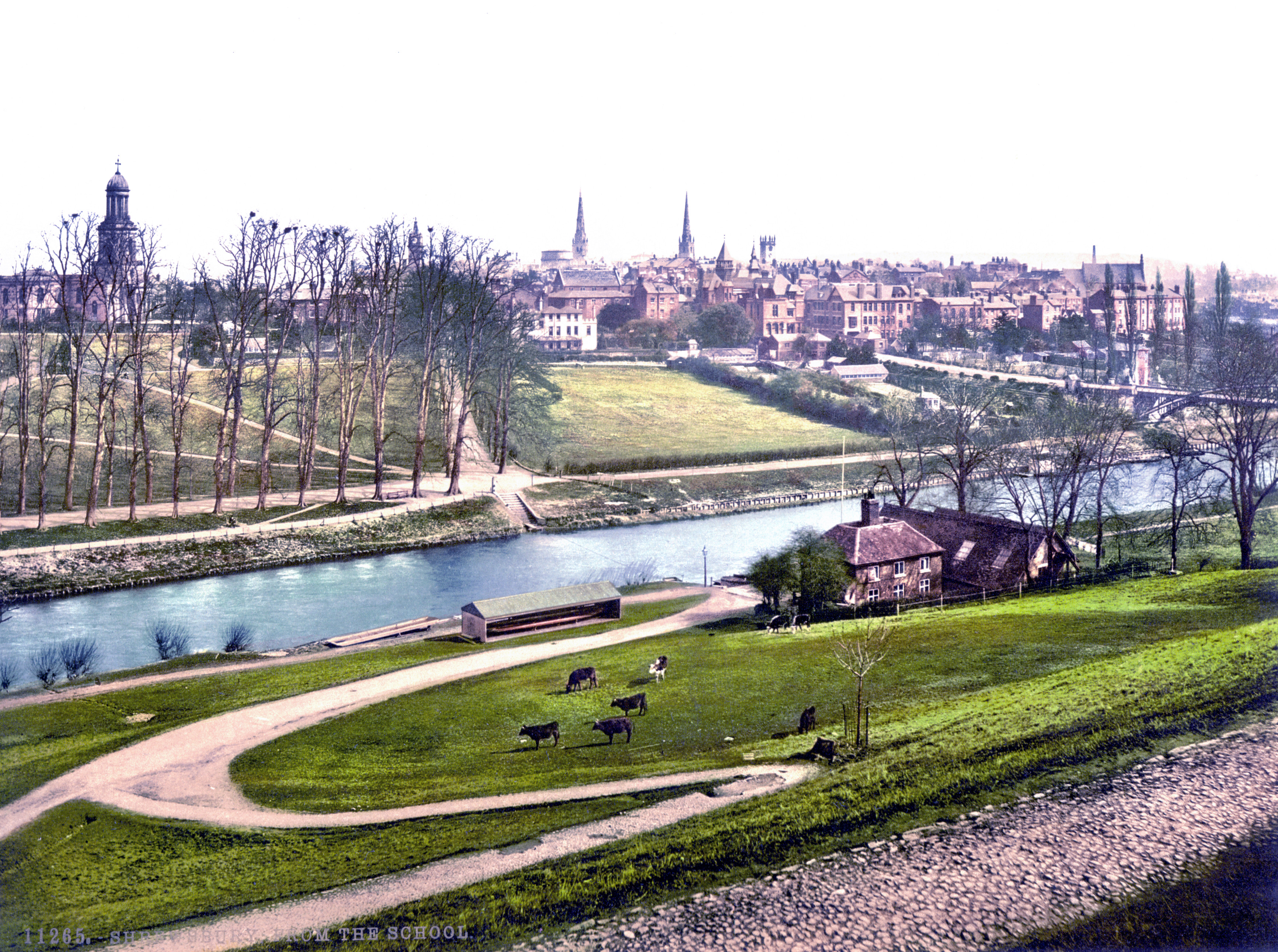 Shrewsbury